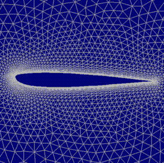 Grid for calculation of the Joukowsky airfoil